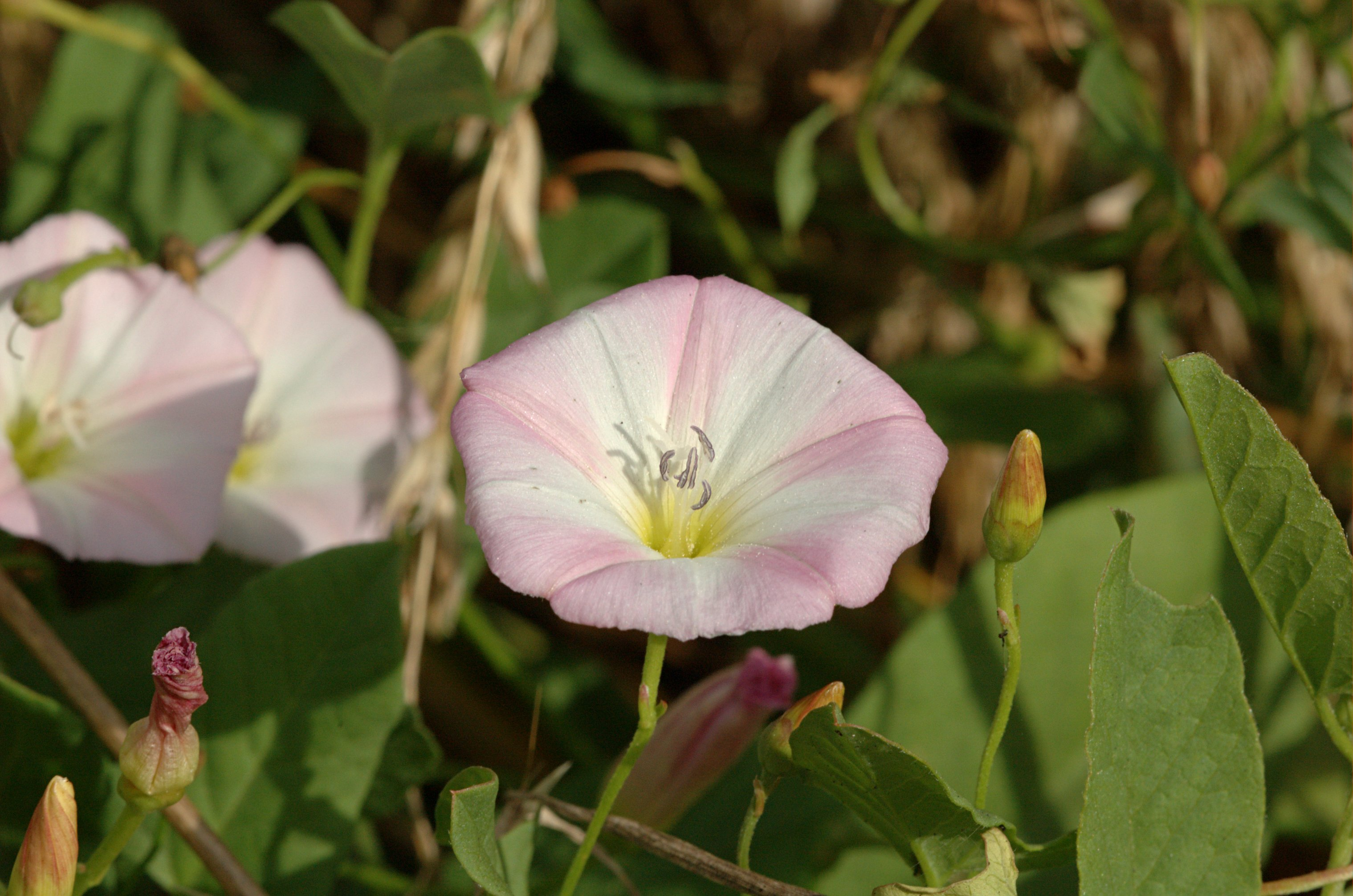 Lesser Bindweed (Convolvulus arvensis)